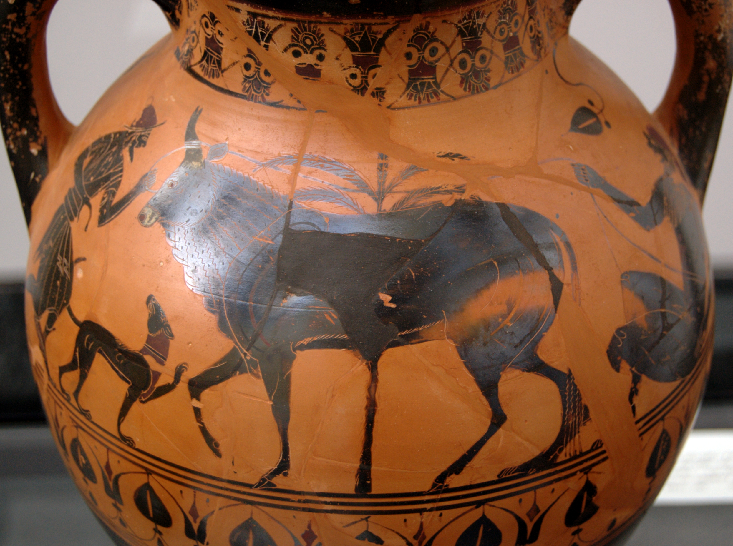 Hermes, Io (as cow) and Argus. Side A from a Greek black-figure amphora, 540–530 BC. Found in Italy.